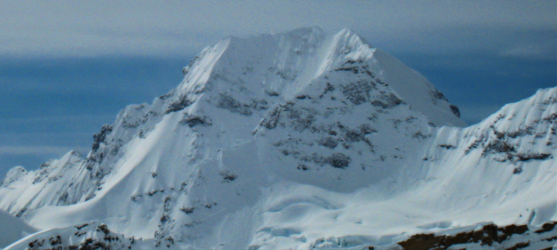 Rostrom Peak, Canadian Rockies